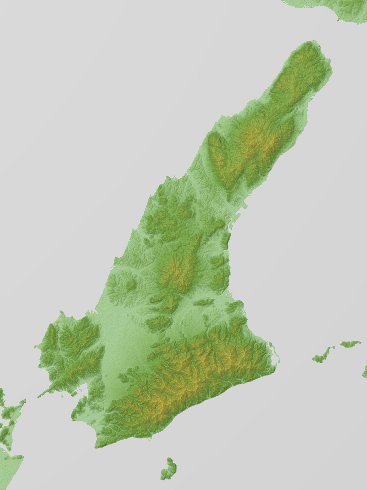 Awaji Island (Awaji-shima) in Hyogo Prefecture, Japan.